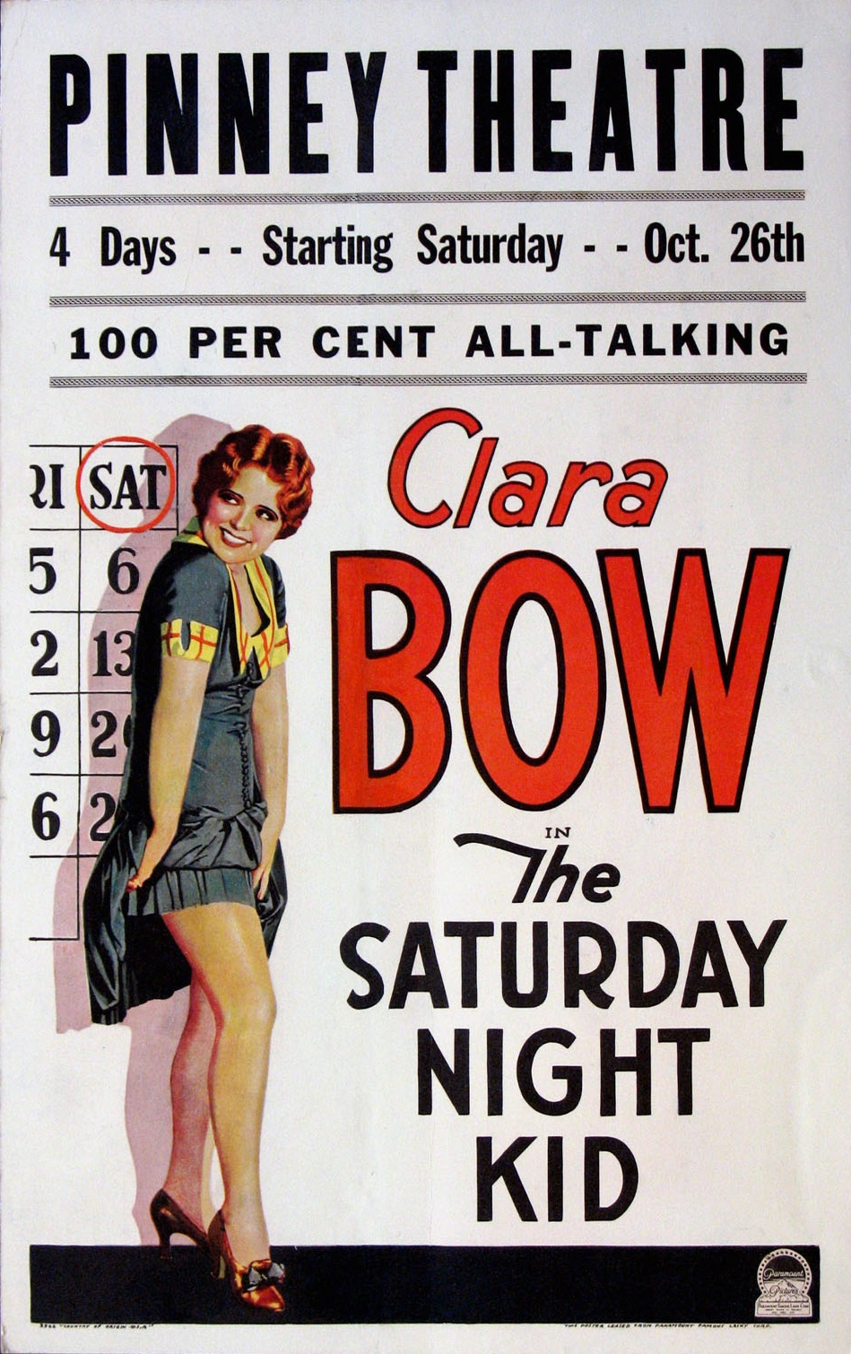 Poster of the American pre-Code romantic comedy film The Saturday Night Kid (1929).